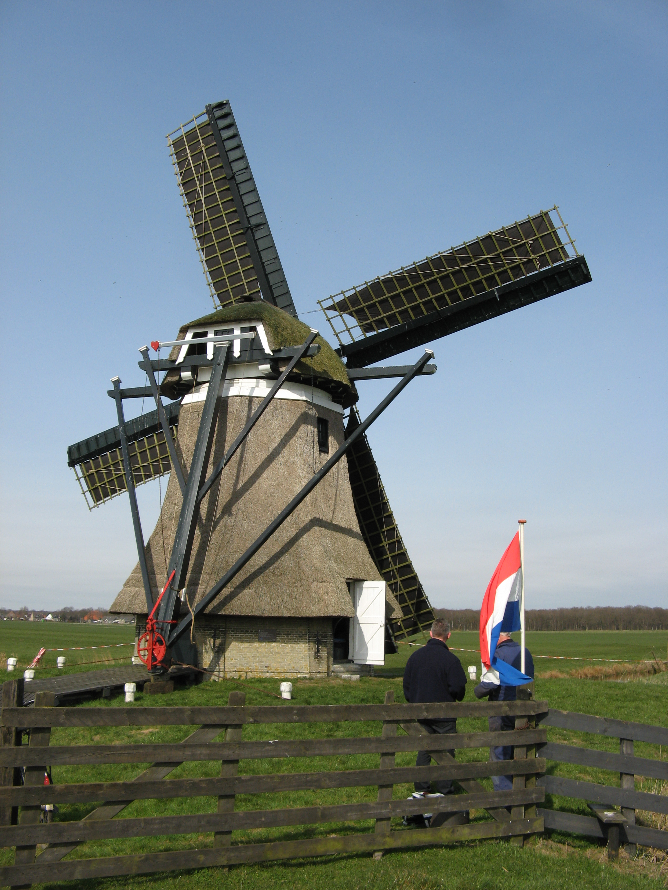 Drainage mill Zwaantje in Nijemirdum, the Netherlands